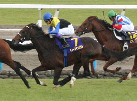 Deep Impact(In Kyoto Racecource on October 23, 2005.)